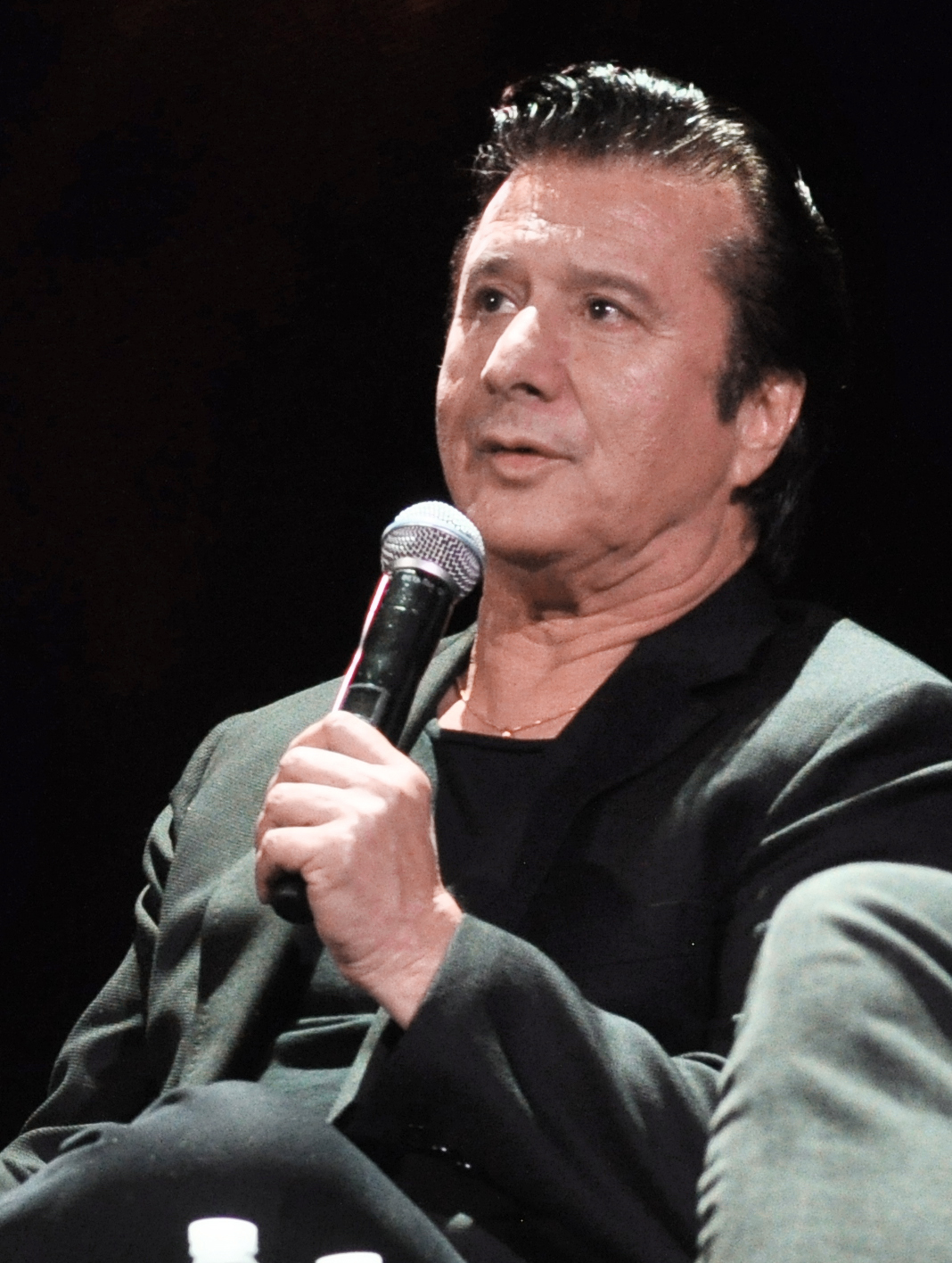 Steve Perry on the keynote panel, "Going Up Yonder: How Music Makers and Writers Confront Loss and Grief", Pop Conference 2019, MoPOP, Seattle Center, Seattle, Washington.